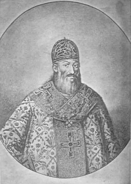 Portrait of Petro Mohyla